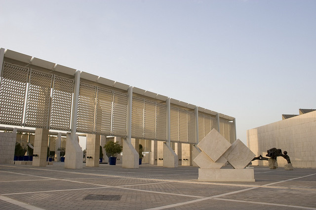 Exterior of the Bahrain National Museum in Manama.